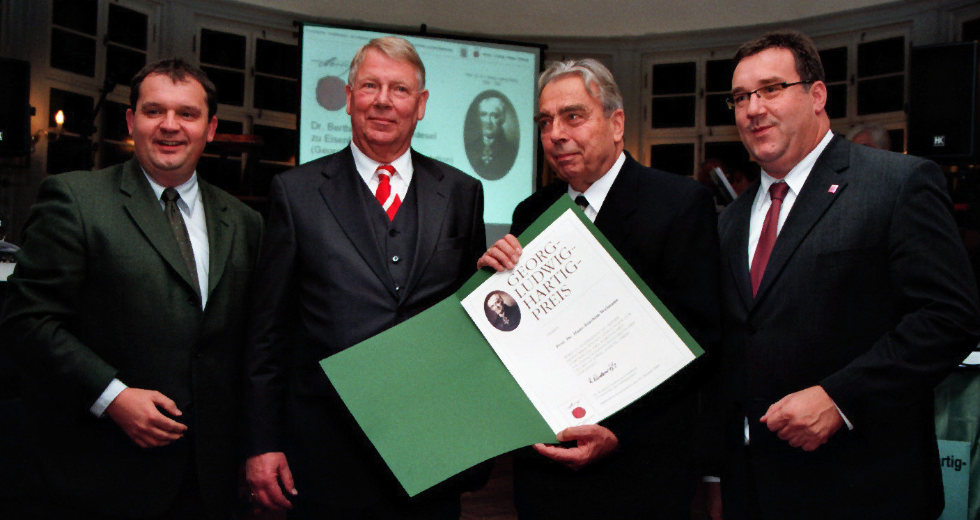 Award ceremony of the Georg-Ludwig-Hartig-Preis (Georg Ludwig Hartig Award) 2009 on October 29, 2009 at Jagdschloss Kranichstein, Darmstadt: Carsten Wilke (Abteilungsleiter Forsten und Naturschutz im hessischen Umweltministerium and president of the Deutscher Forstverein, left), Dr. Berthold Riedesel Freiherr zu Eisenbach (chairman of the foundation council of the Georg-Ludwig-Hartig-Stiftung, second from left) and state secretary Mark Weinmeister (hessisches Umweltministerium, right) congratulate Professor Dr. Hans-Joachim Weimann (second from right) on receiving the award.